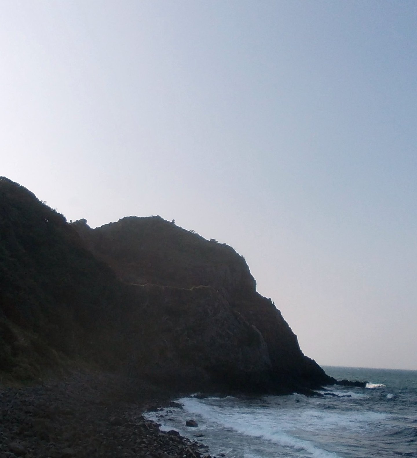 Keya-no-Ōto sea caves, Itoshima, Fukuoka, Japan